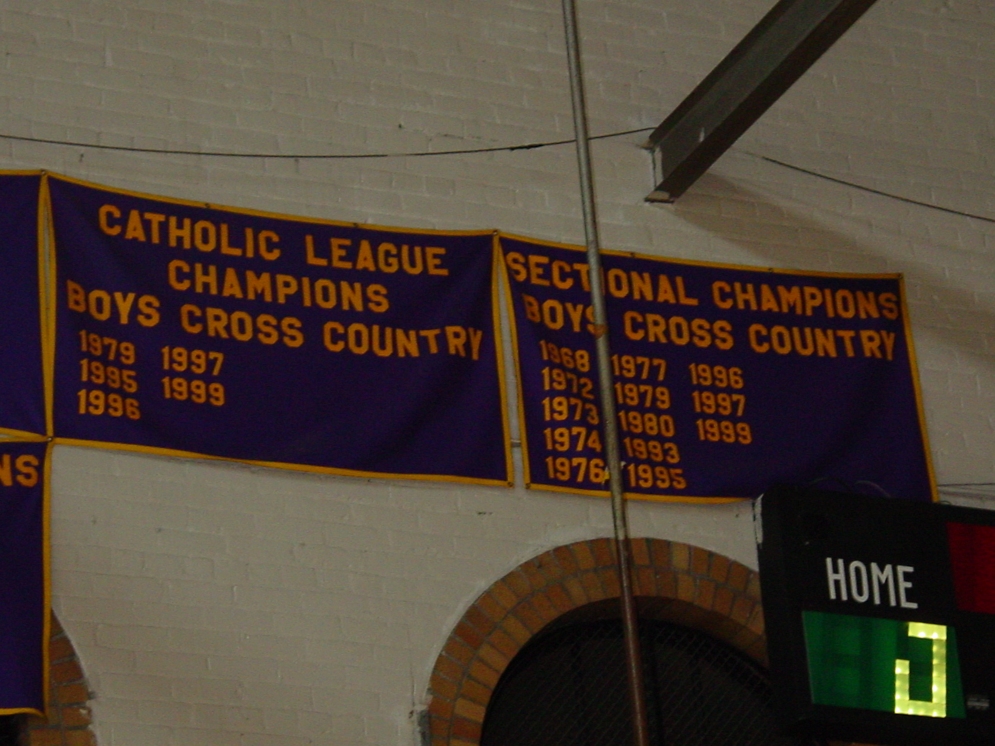 Gym Banners in the Holy Redeemer High School Gymnasium